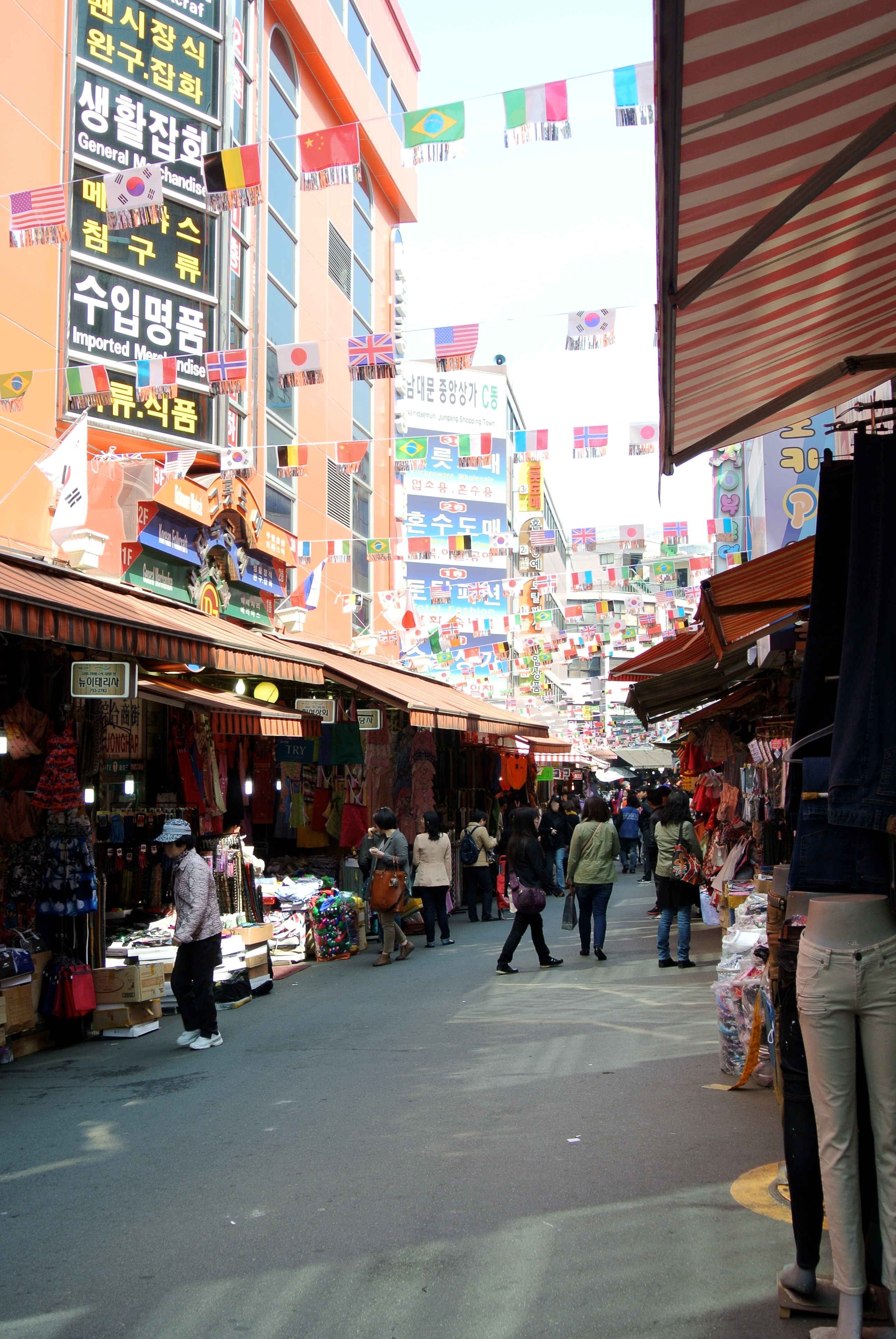 An alley in Namdaemun Market, Seoul.